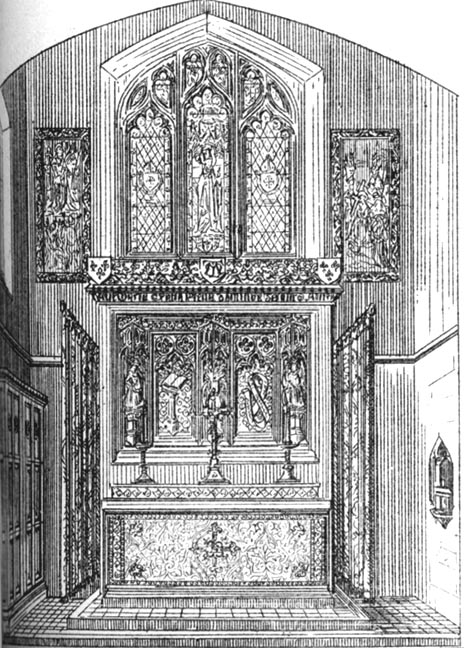 A drawing, by Augustus Pugin, of the alter in his Bishop's House in Birmingham, England, from Pugin's Present State of Ecclesiastical Architecture.